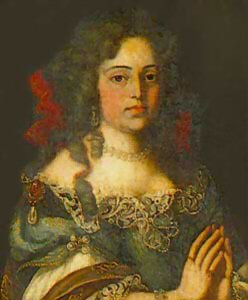 Picture of Marie-Françoise of Savoy, Queen consort of Portugal by marriage to first Afonso VI of Portugal and then Peter II of Portugal.